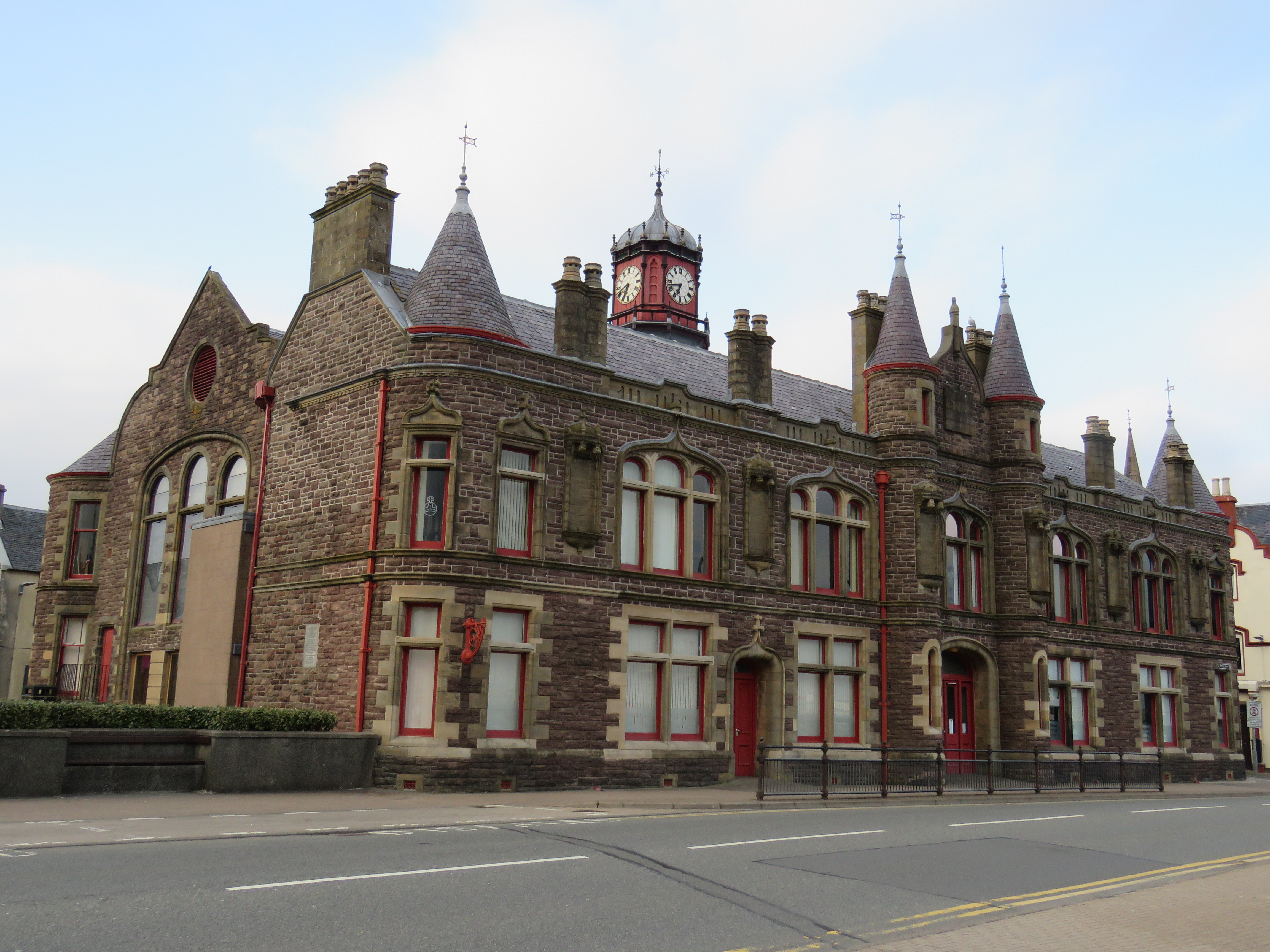 Stornoway town hall, Lewis, Outer Hebrides